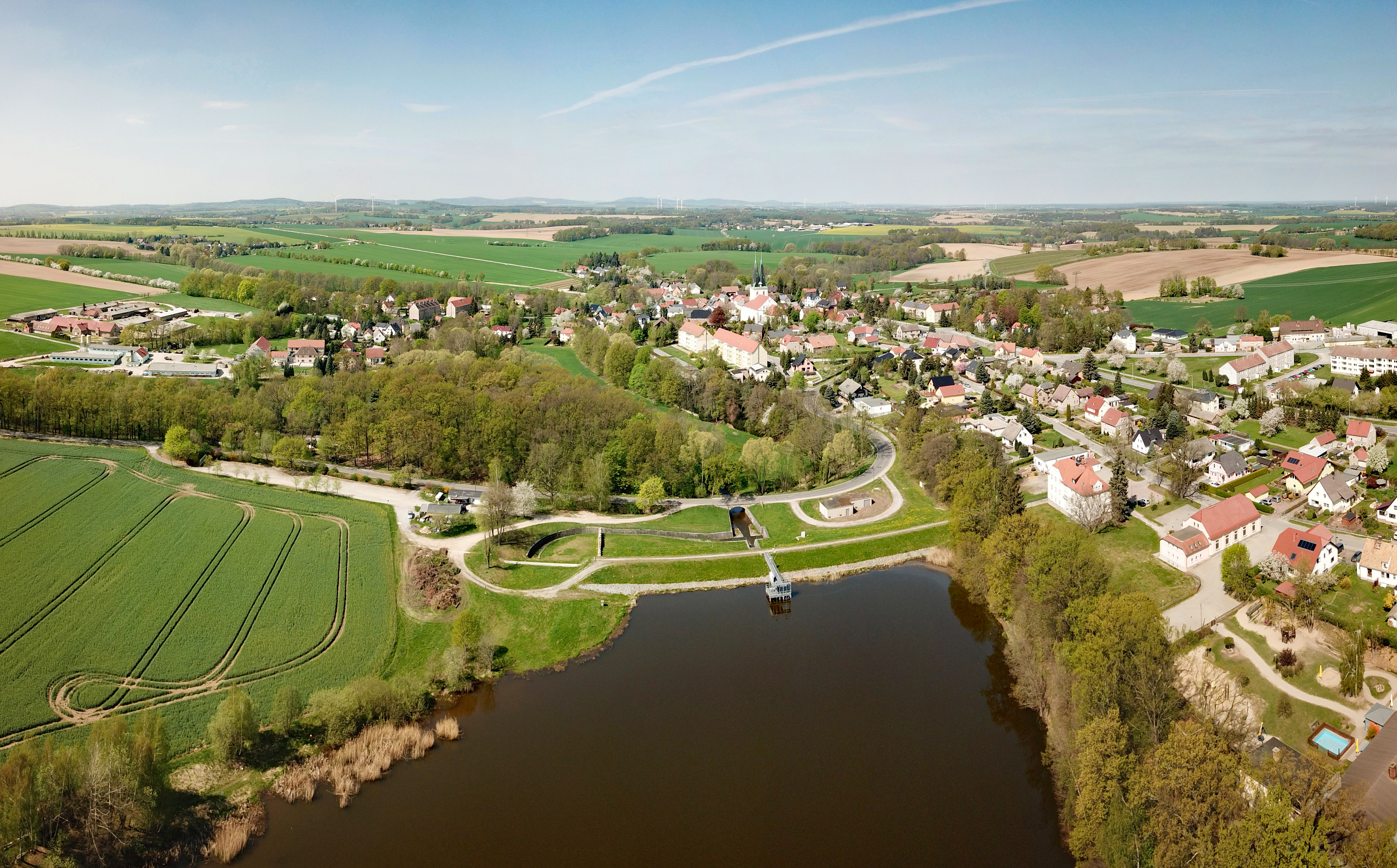 Göda, Saxony, Germany Hornjoserbsce: Powětrowy wobraz Hodźija